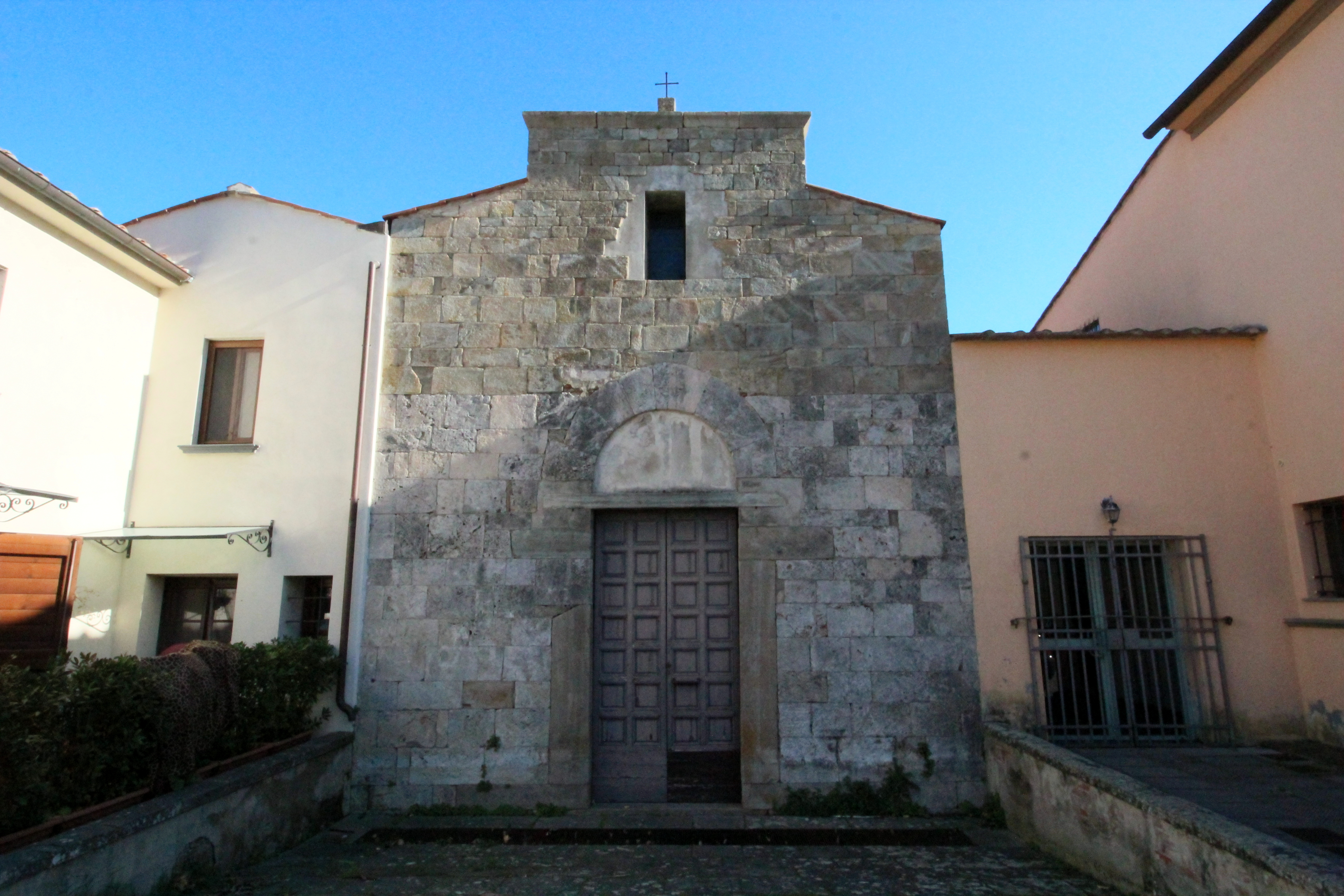 Santa Jacopo, also called San Torpè, Church in Zambra, hamlet of Cascina, Province of Pisa, Tuscany, Italy